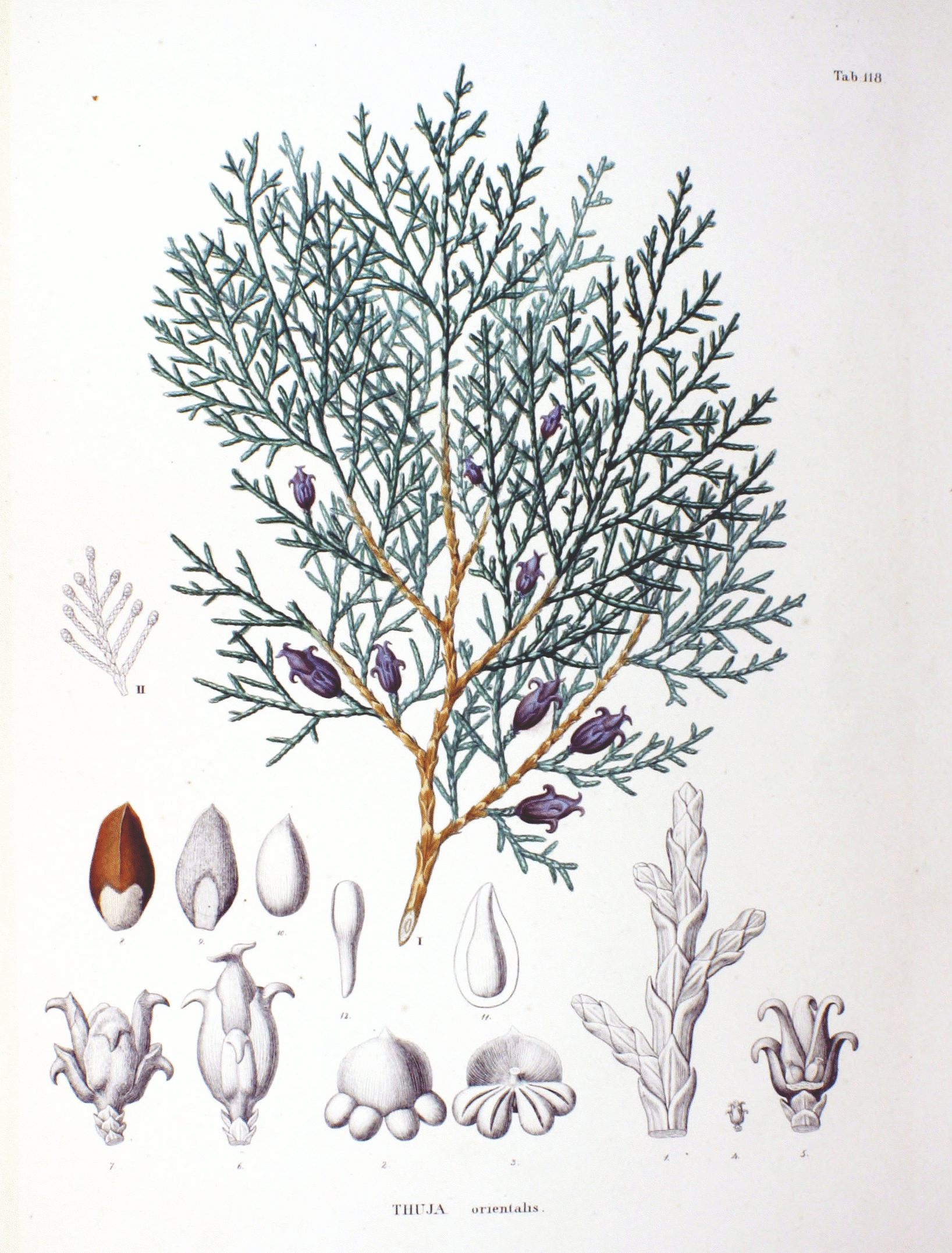 Plate from book